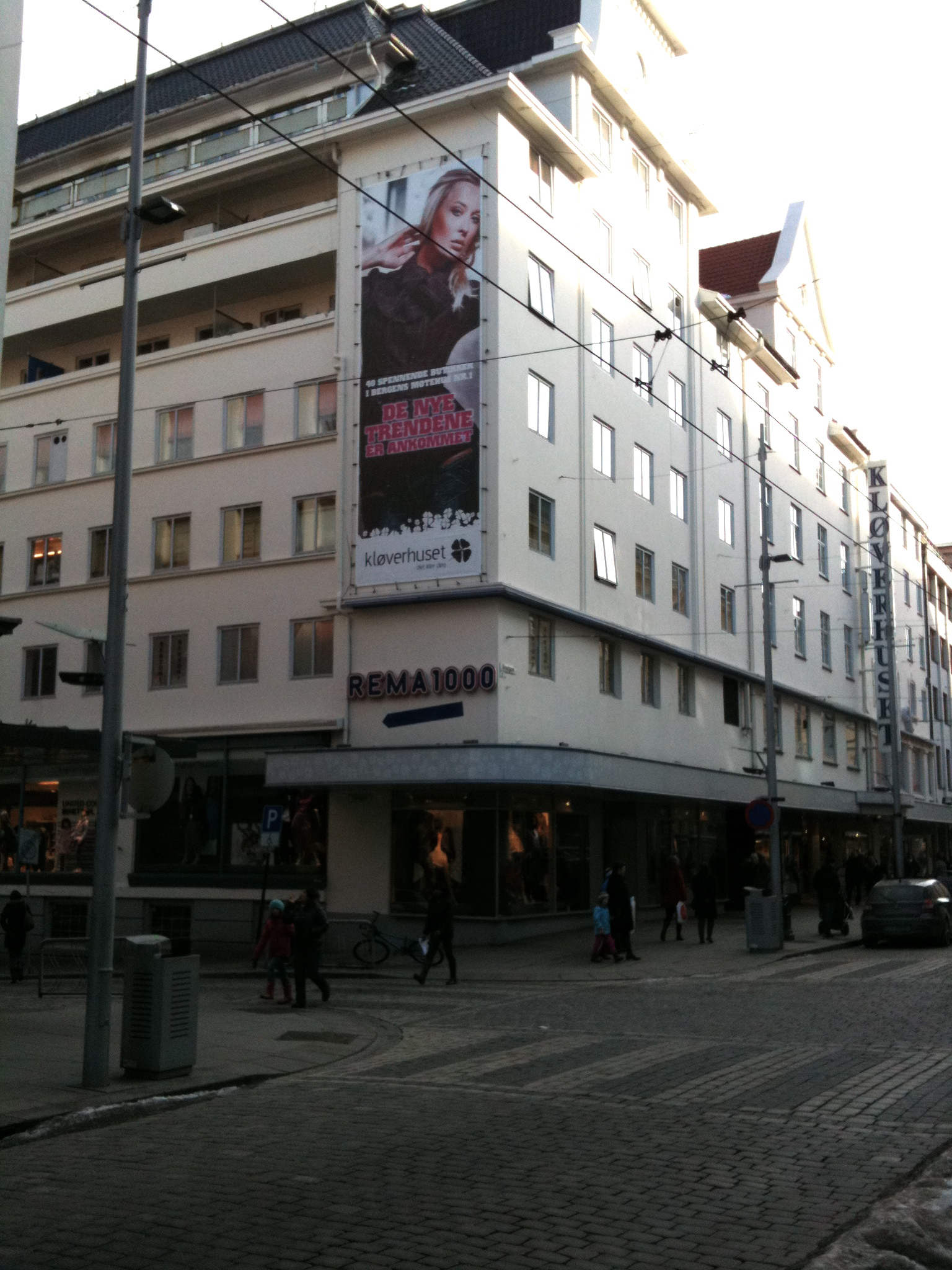 Kløverhuset in Bergen, Norway